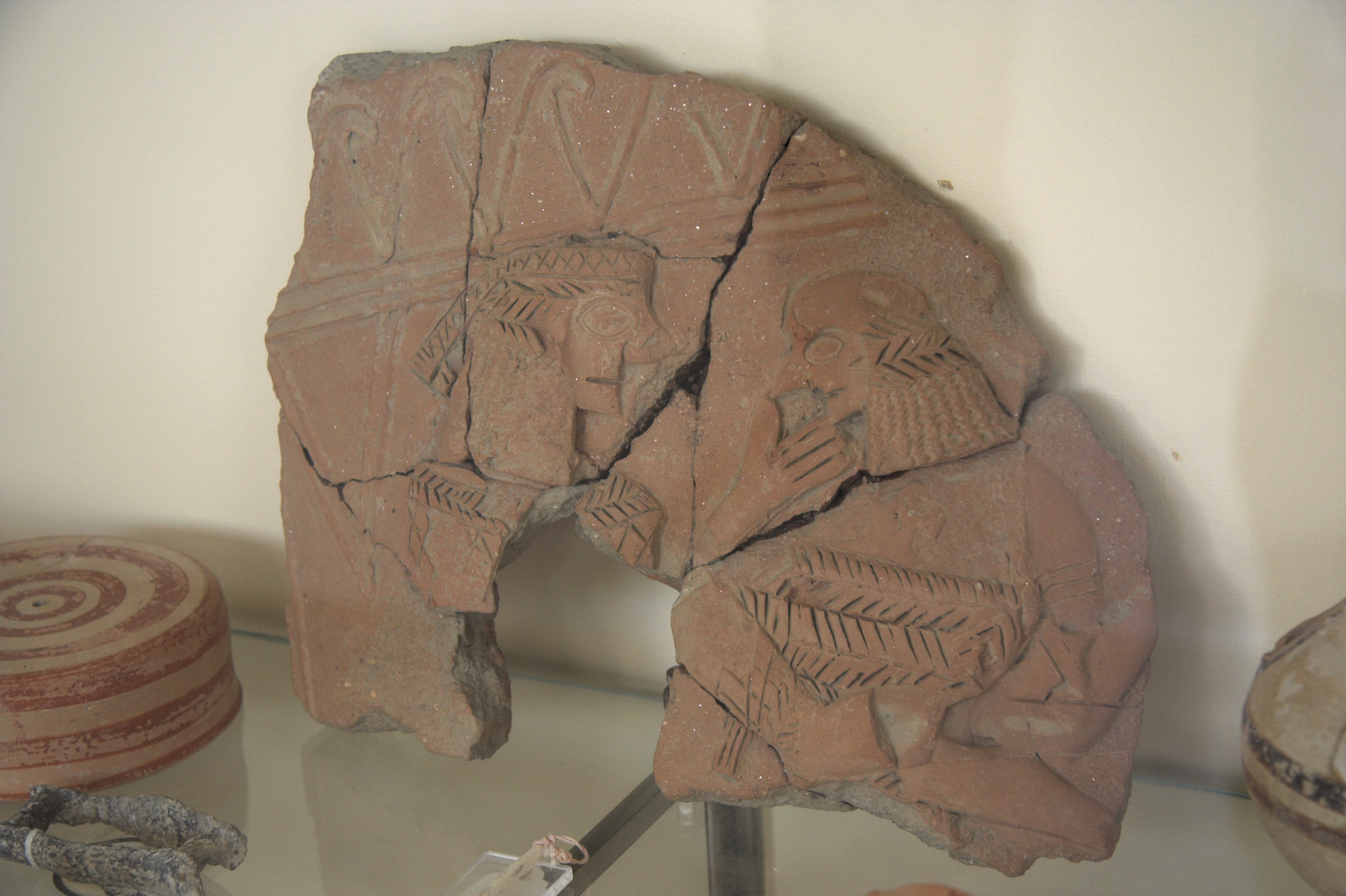 Fragment of relief from geometric vase, 680-650 BC, from acropolis of Koukounaries (Naoussa) on Paros. Archaeological Museum of Paros.